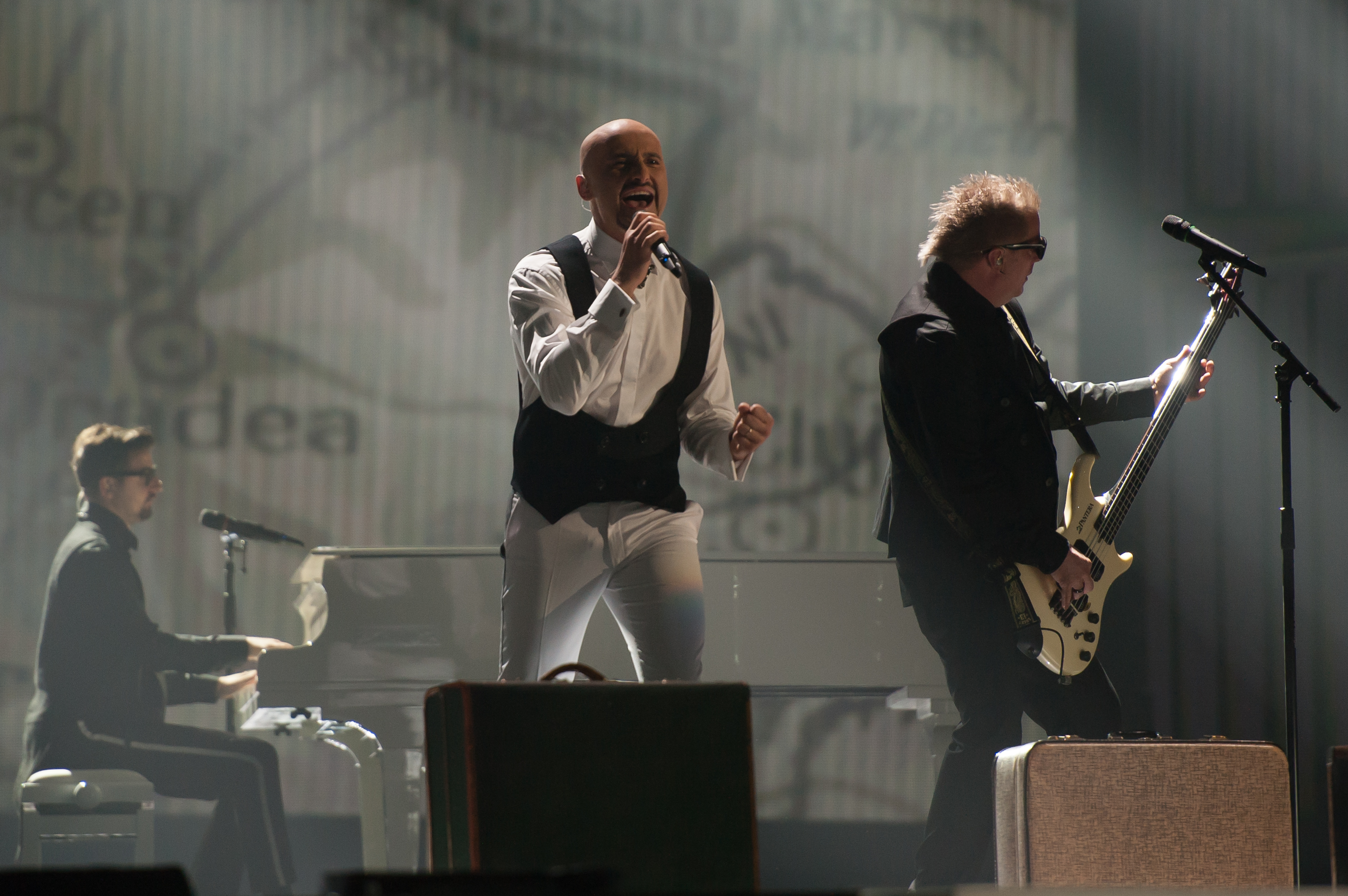 Eurovision Song Contest Vienna 2015: Voltaj